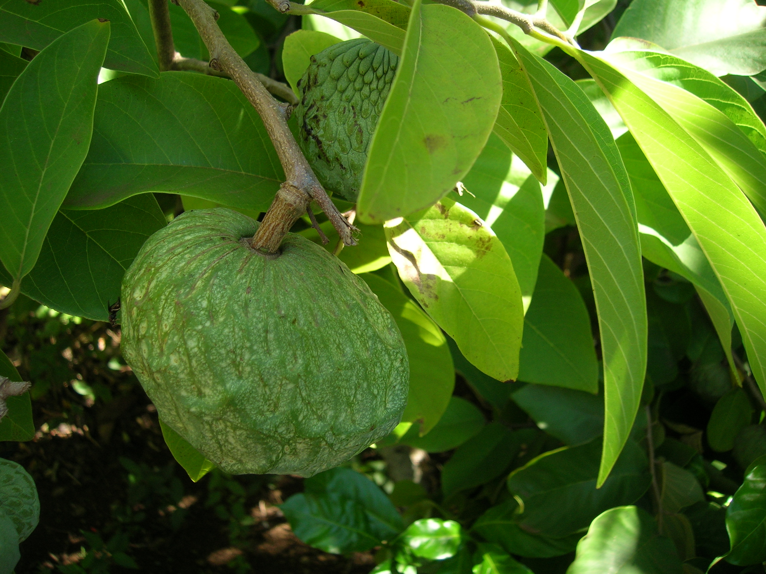 Annona squamosa (fruit and leaves). Location: Maui, Enchanting Floral Gardens of Kula